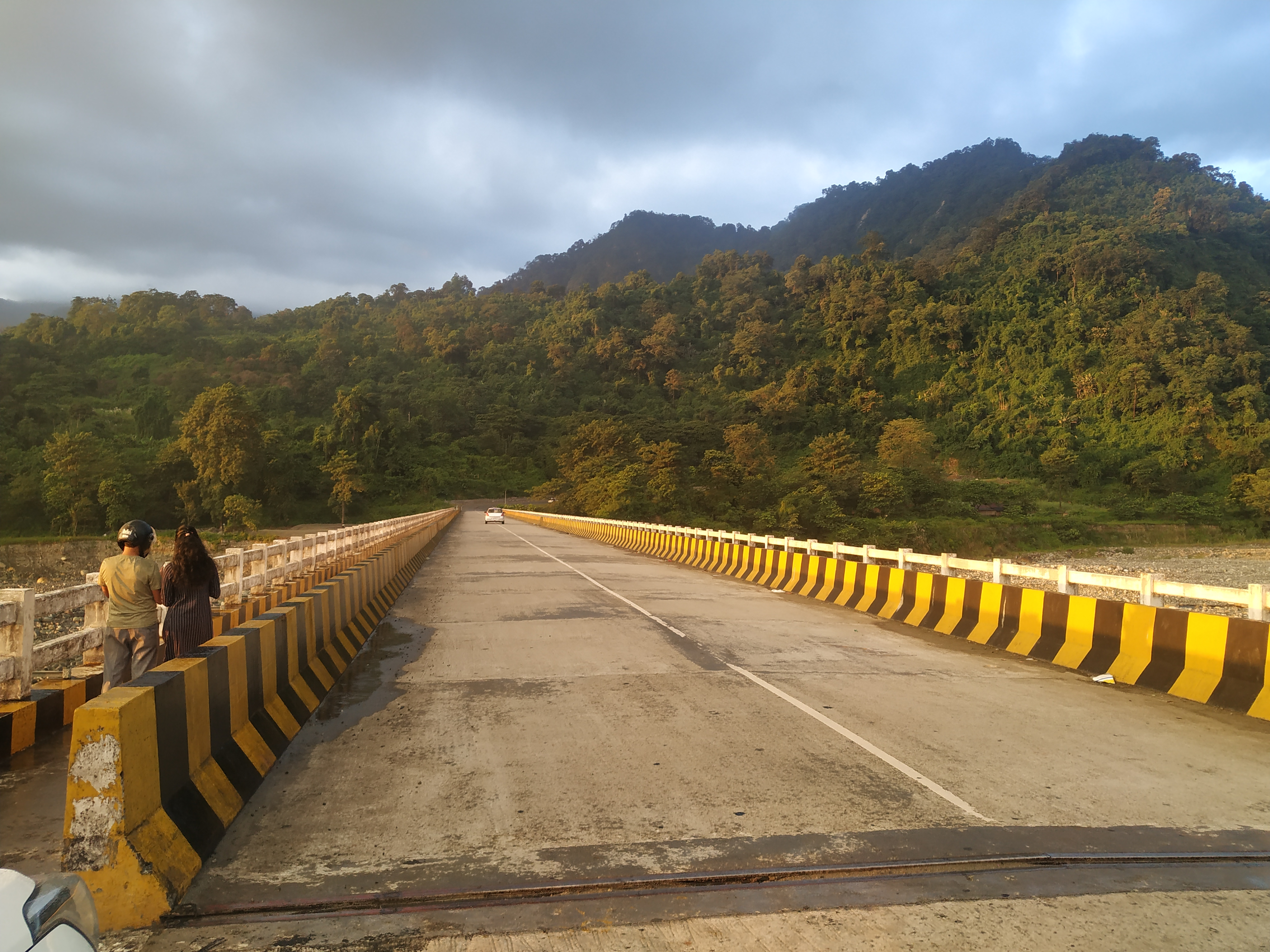 Deopani Bridge over river Eze, on the way to Menchukha